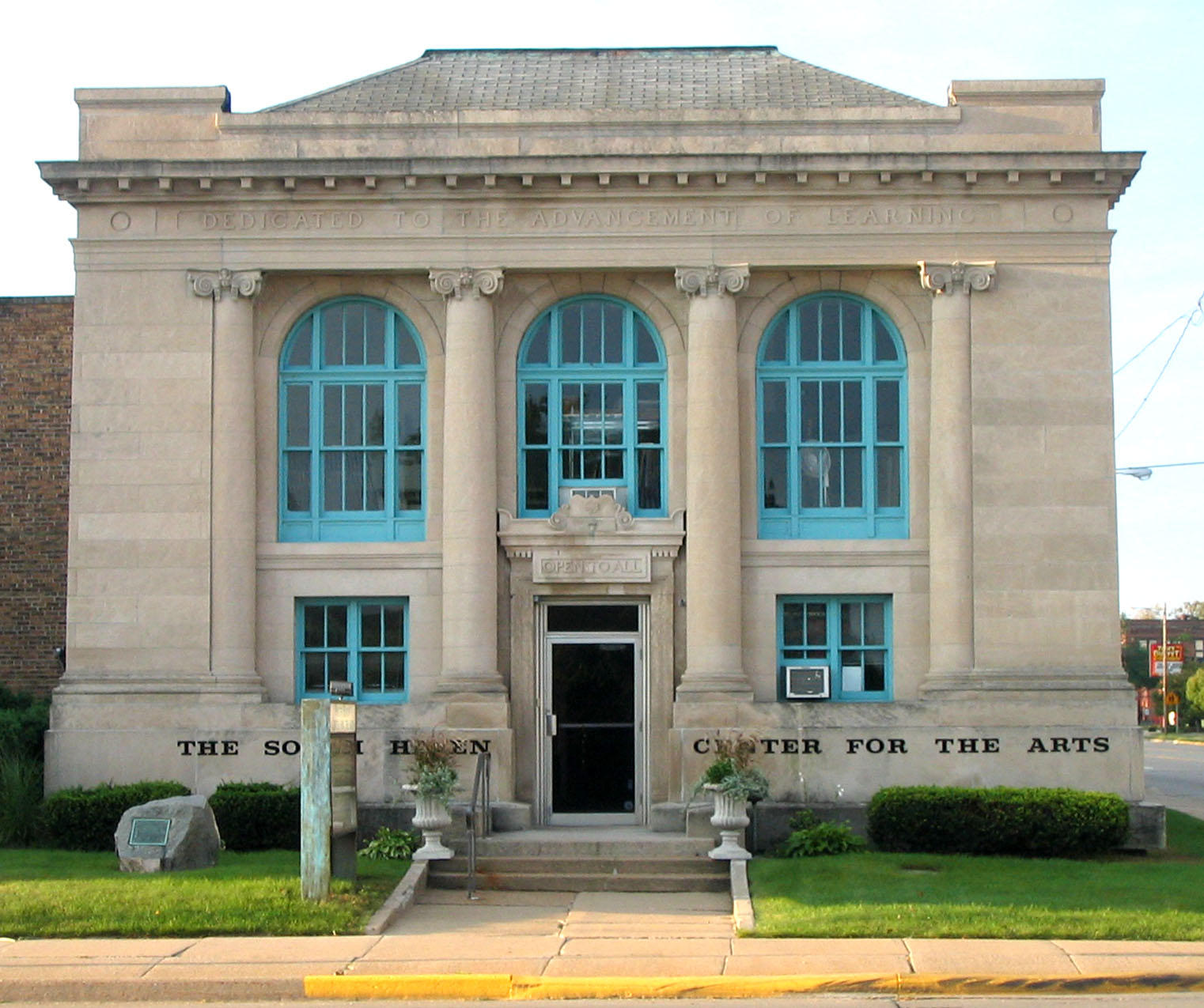 The 1906 Carnegie Library, now houses the South Haven Center for the Arts. It is located in South Haven, Michigan. Author:D.R.J. Stiennon